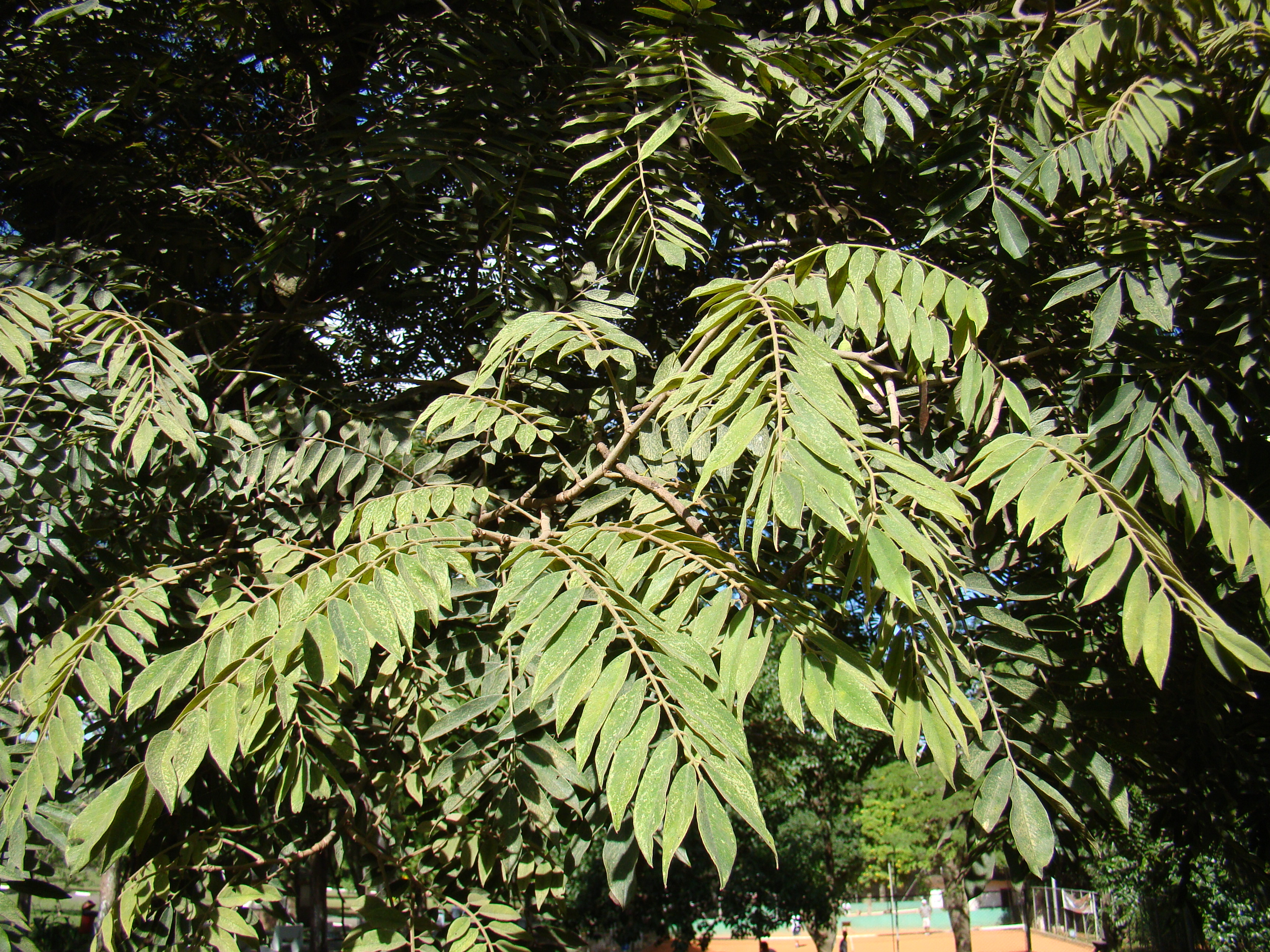 Cedrela fissilis foliage, cultivated, Brazil